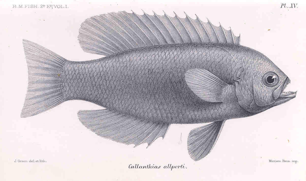 Callanthias allporti Subject: Callanthias allporti Tag: Fish